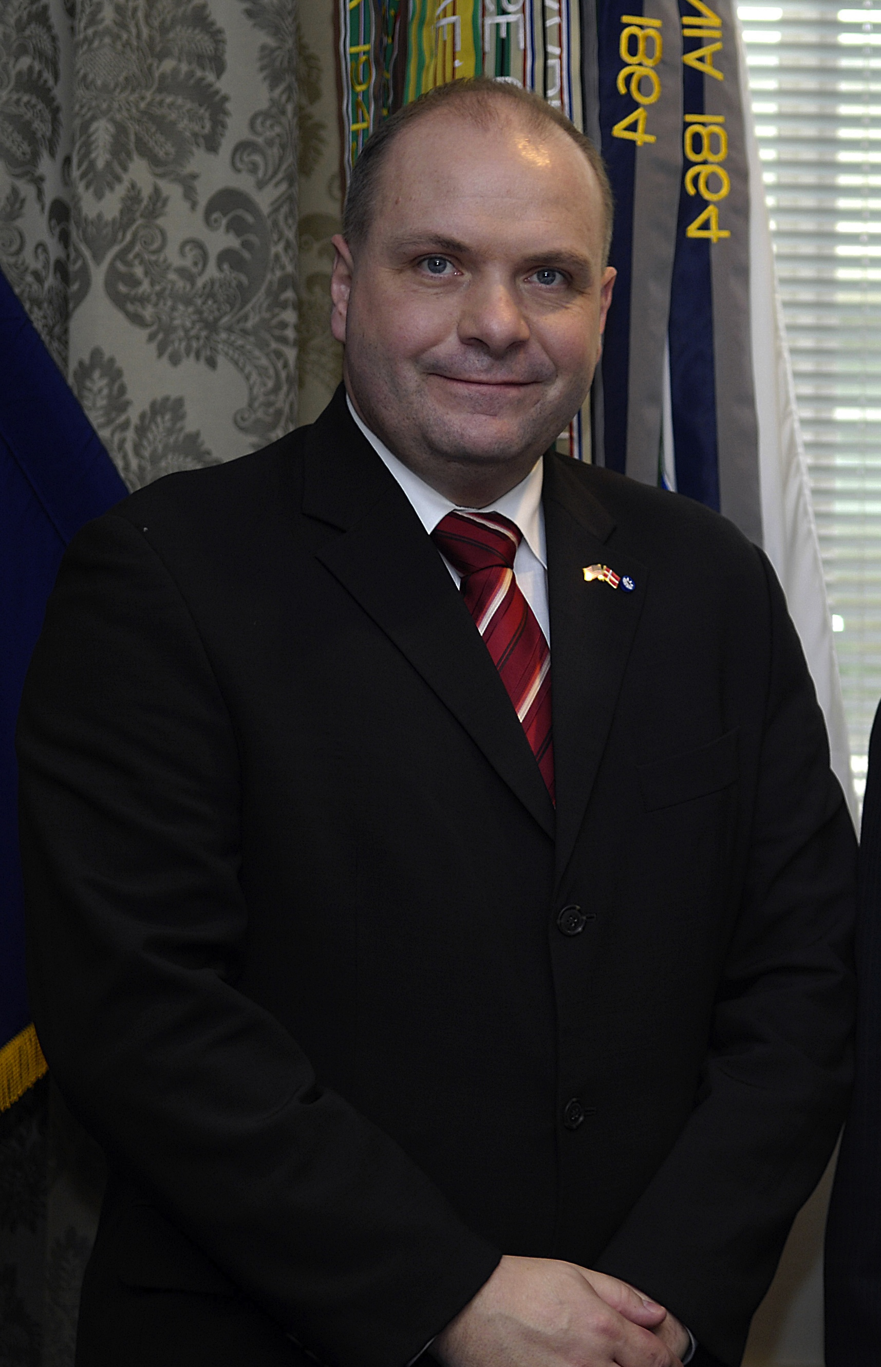 Danish Minister of Defense Søren Gade pose for a photo prior to a meeting at the Pentagon